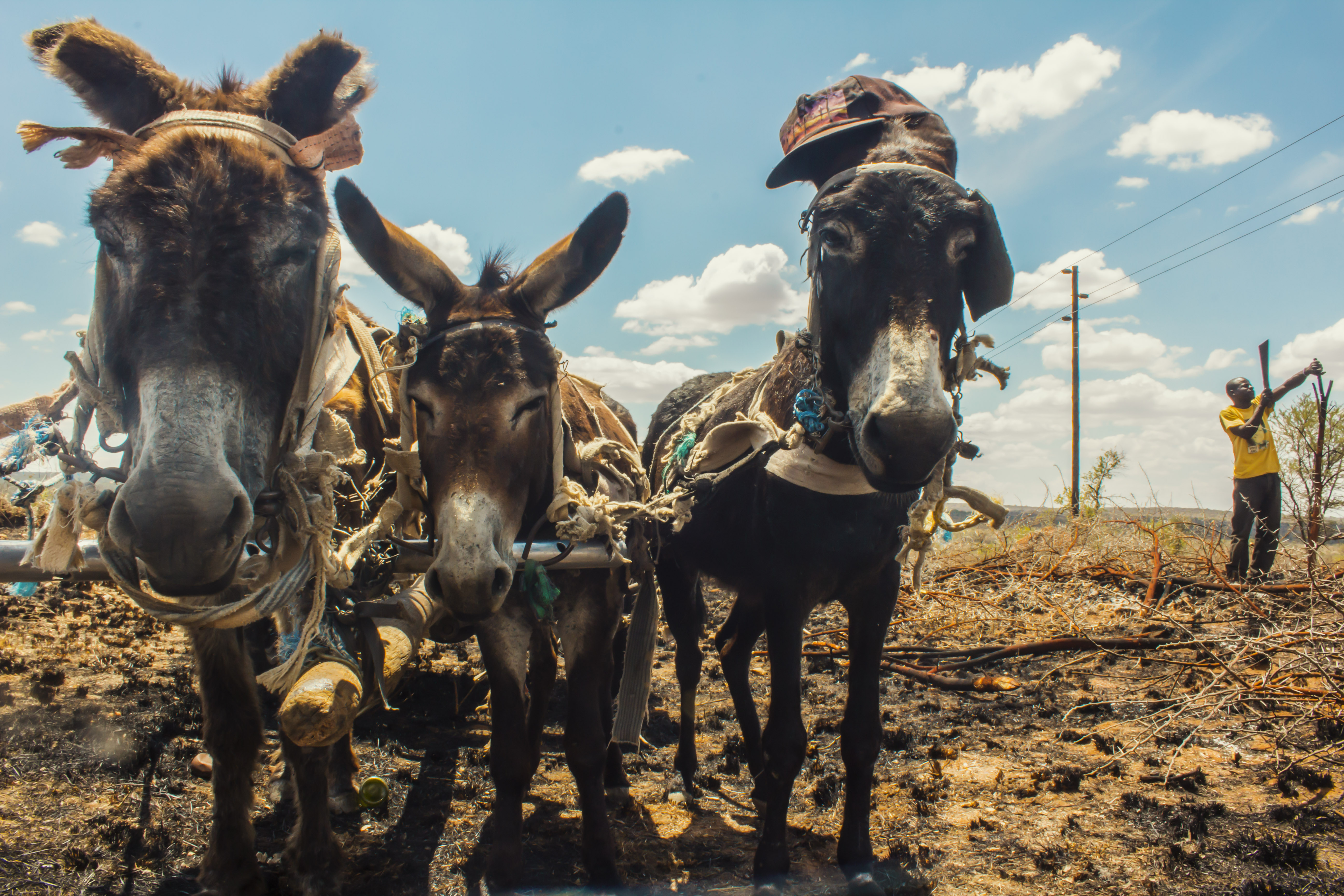 This is an image with the theme "Africa on the Move or Transport" from: South Africa